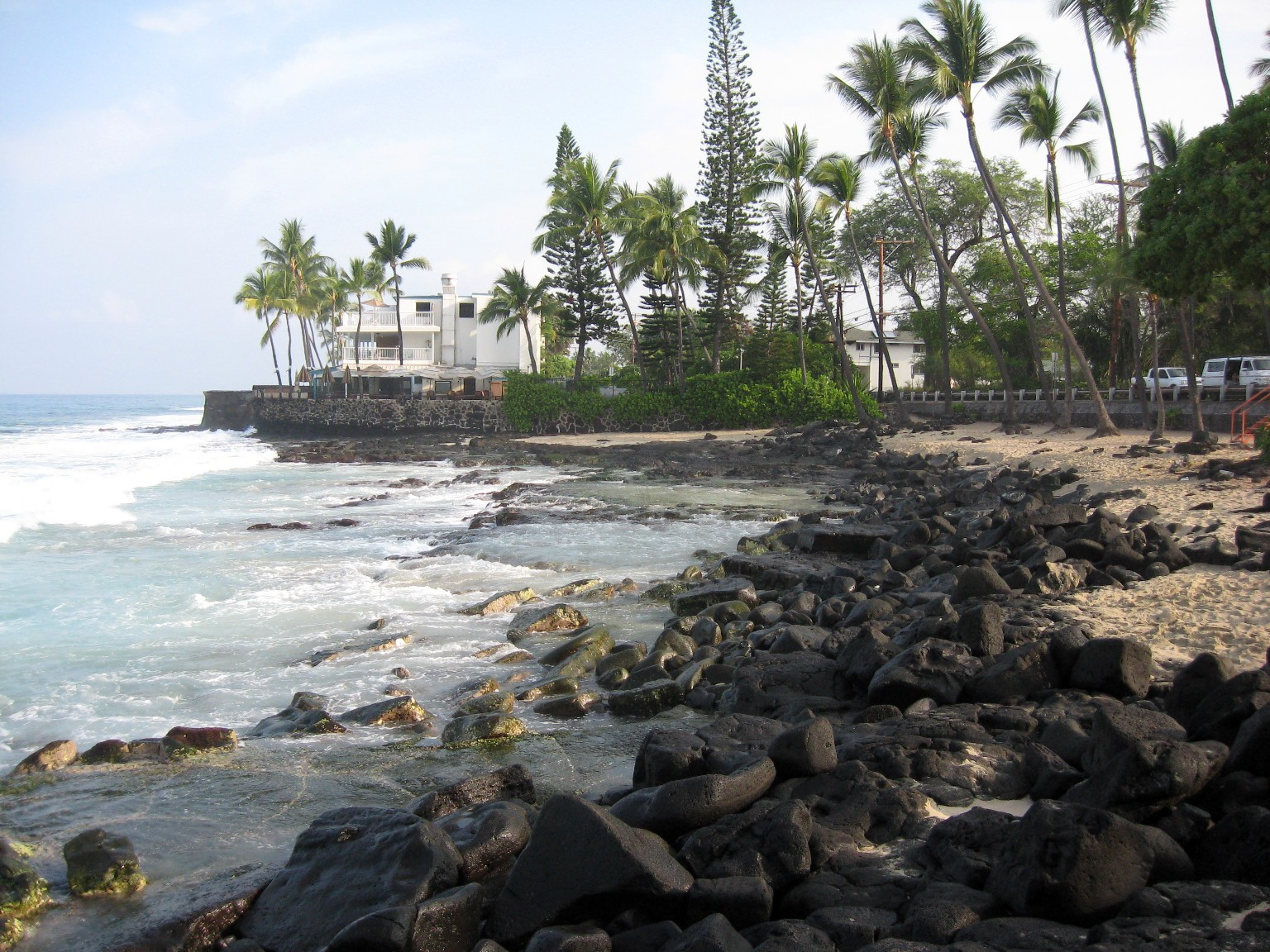 After a storm, the sand all washes out, giving it the name "Magic Sand" or "Disappearing Sand" beach.